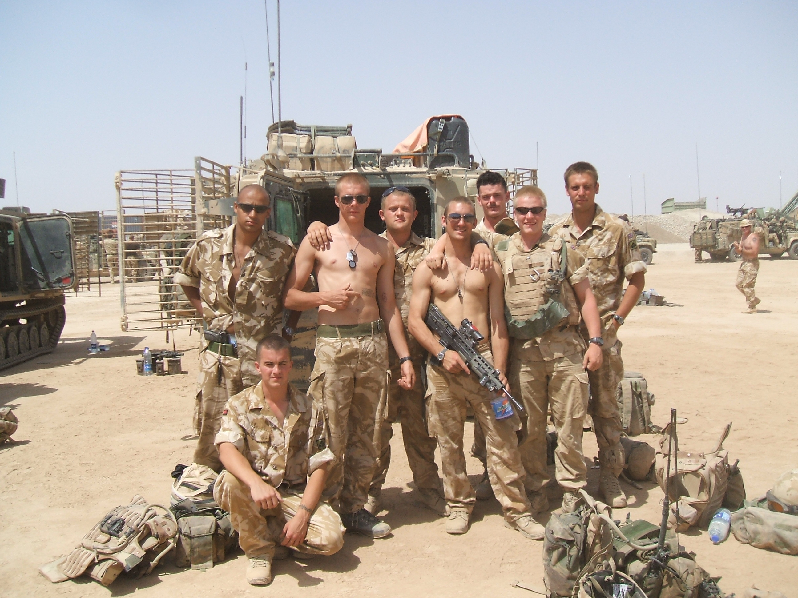 Anglians Helmand 3